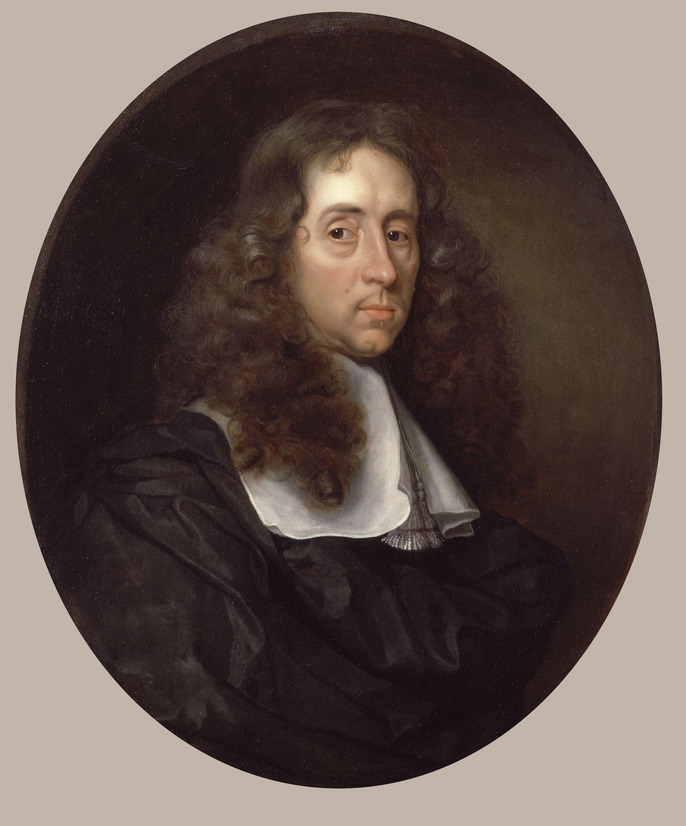 Nathaniel Highmore, by unknown artist. All images in this batch are listed as "unknown author" by the NPG, who is diligent in researching authors, and was donated to the NPG before 1939 according to their website.